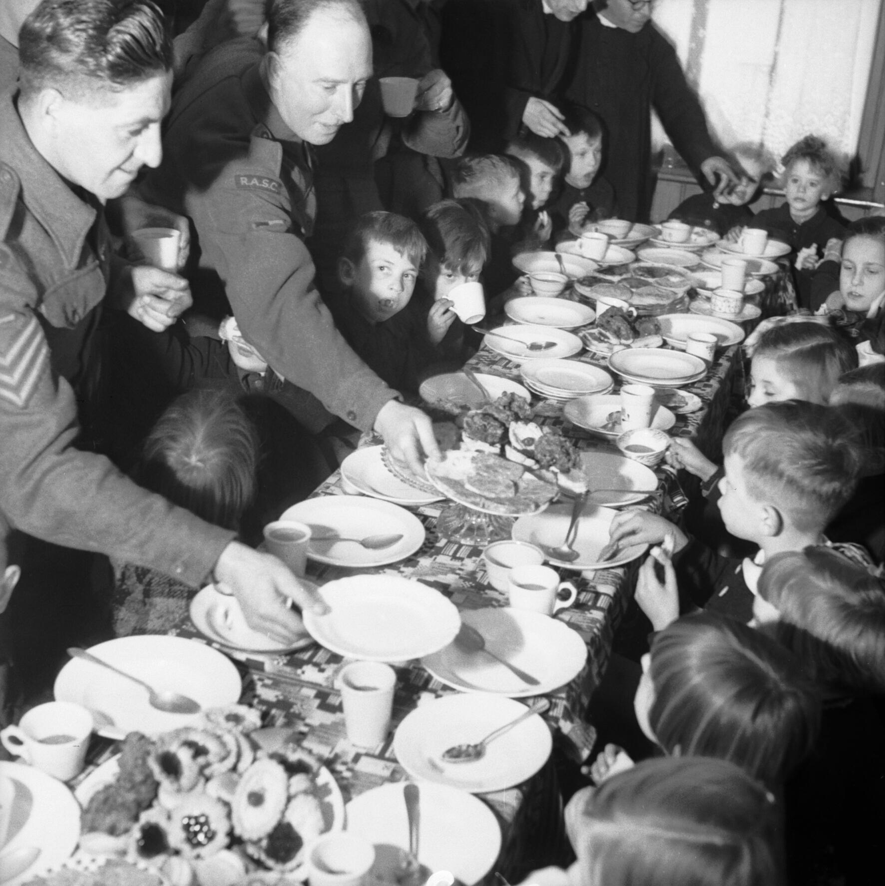 British soldiers serving food to Dutch children at a St Nicholas Day party in Holland, 7 December 1944. Soldiers serving food to Dutch children at a St Nicholas Day party in Holland, 7 December 1944.